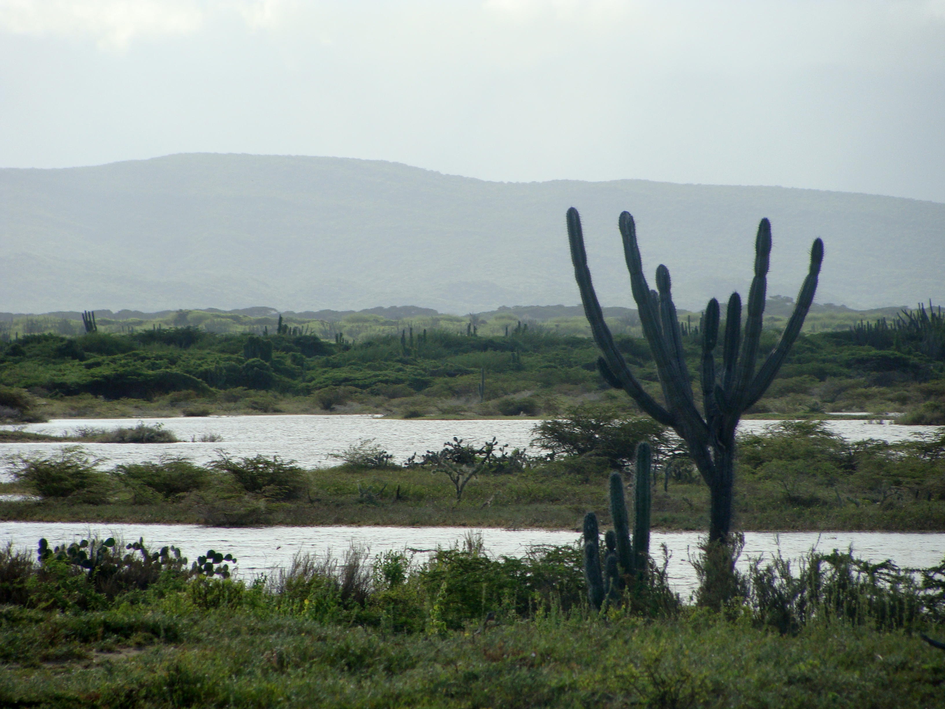 Wet desert. Cerca de Coro, Falcón, Venezuela.